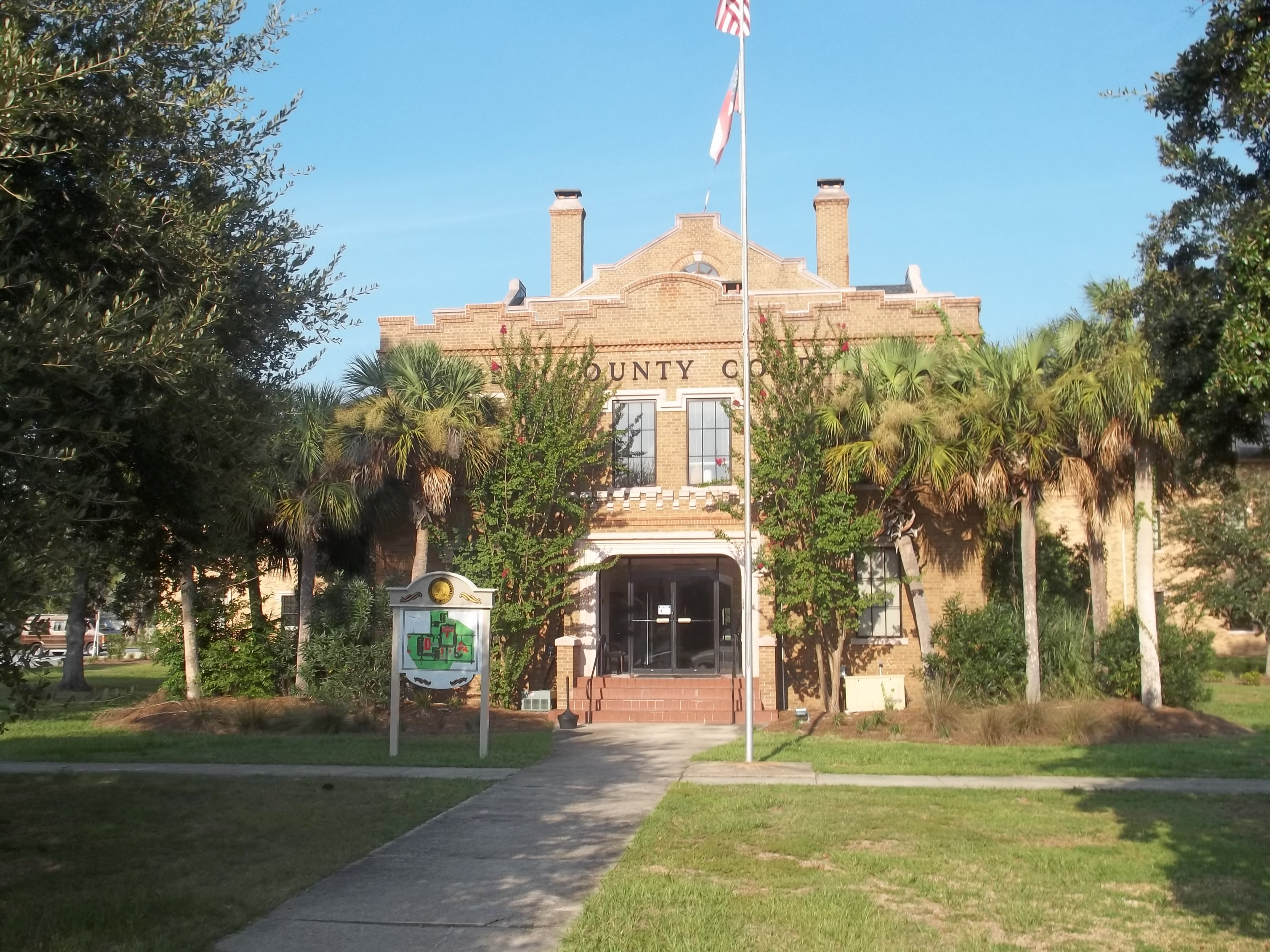 Woodbine, Georgia: Old Camden County Courthouse